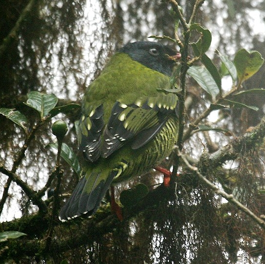 Barred Fruiteater (Pipreola arcuata). A male in Yanacocha Reserve, NW Ecuador